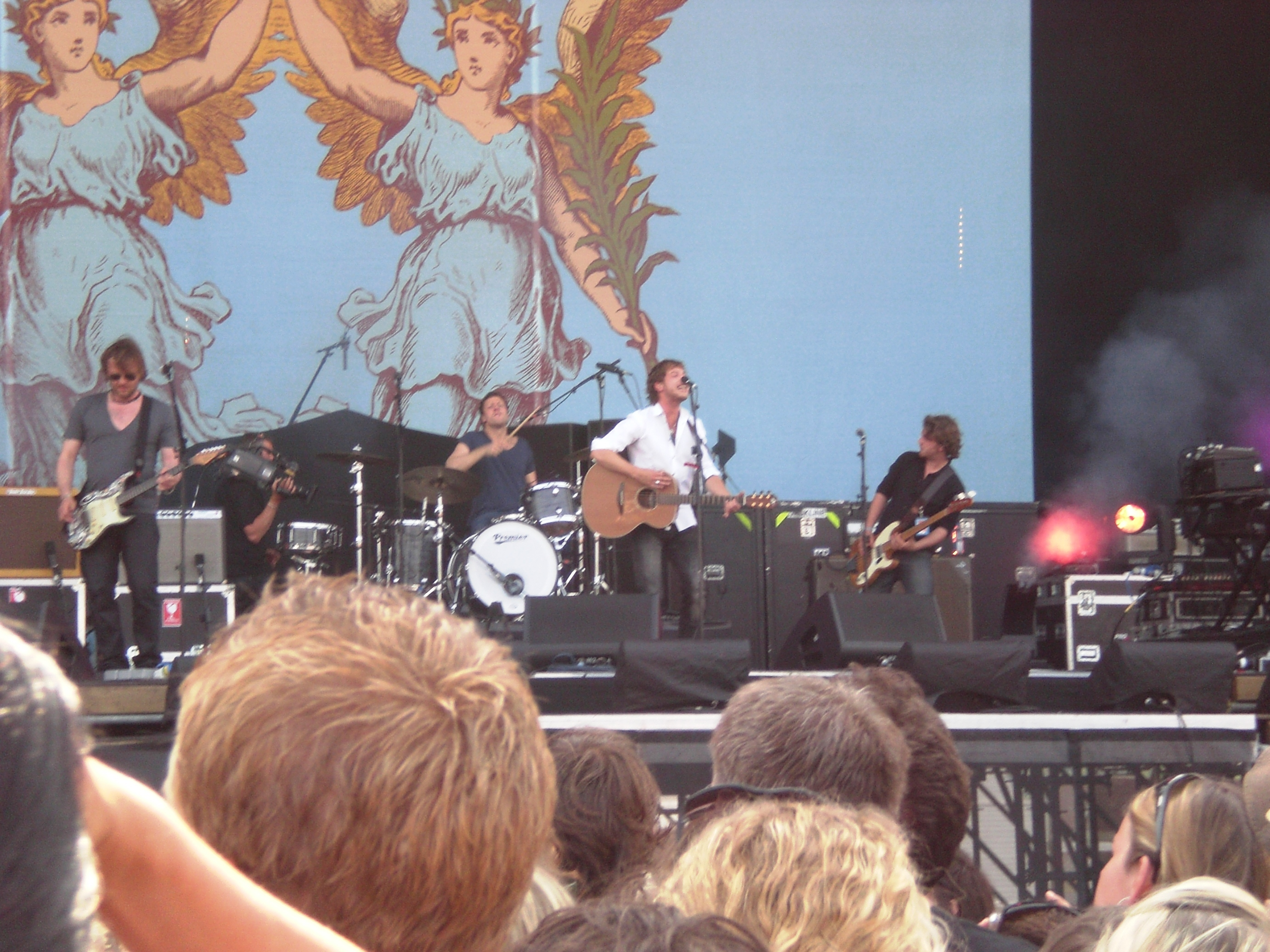 James Morrison performing at the Isle of Wight Festival 2007.